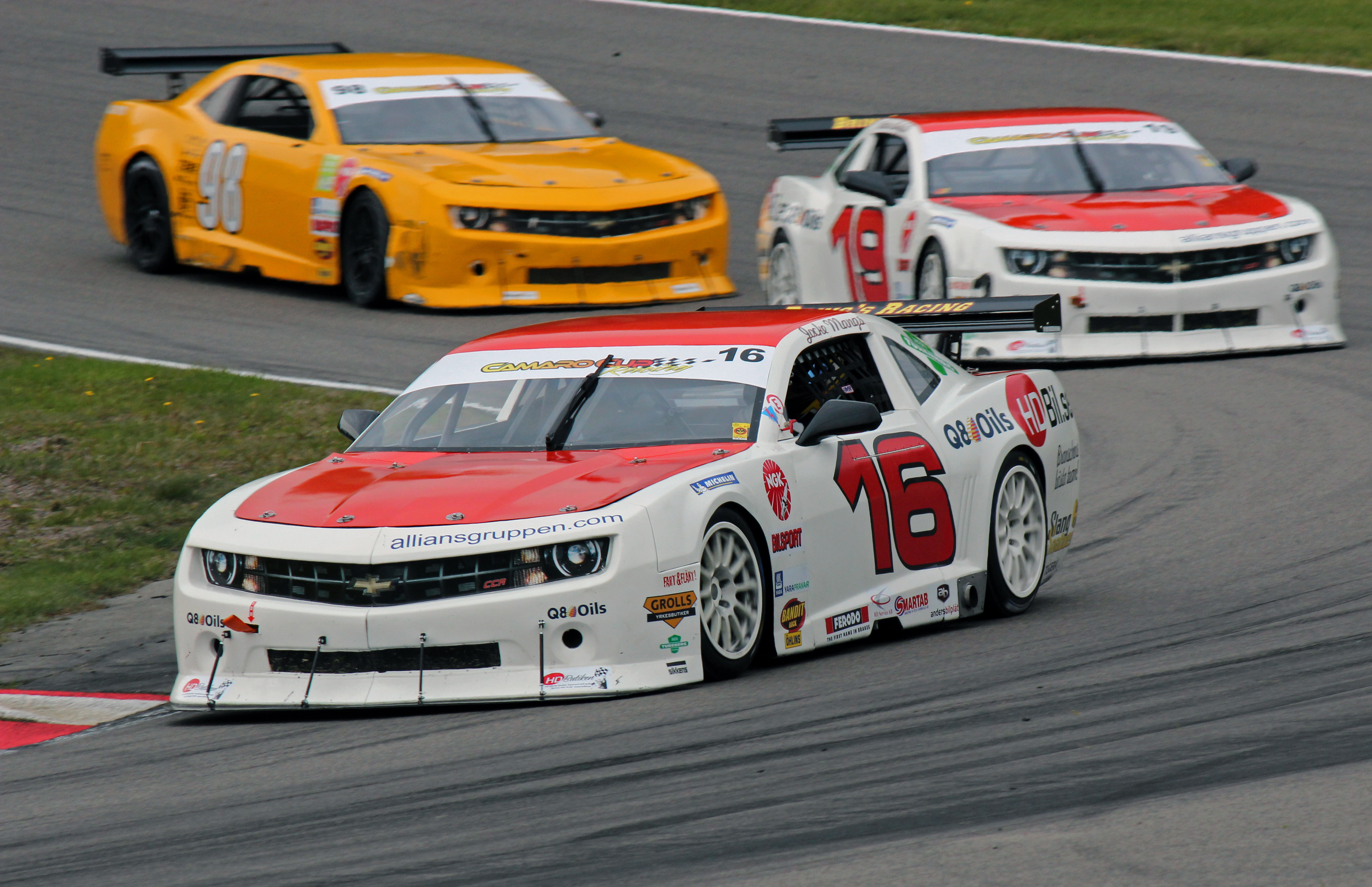 Joakim "Jocke" Mangs in a Chevrolet Camaro Gen-5 in Camaro Cup at Ring Knutstorp in 2012..